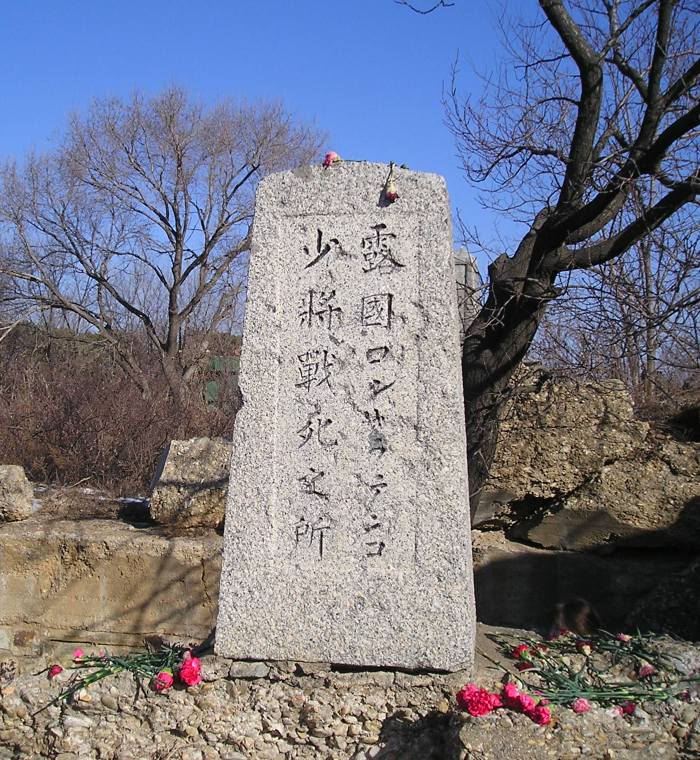 the cenotaph of Russian General Roman Kondratenko, killed by a Japanese shell at Port Arthur in 1905